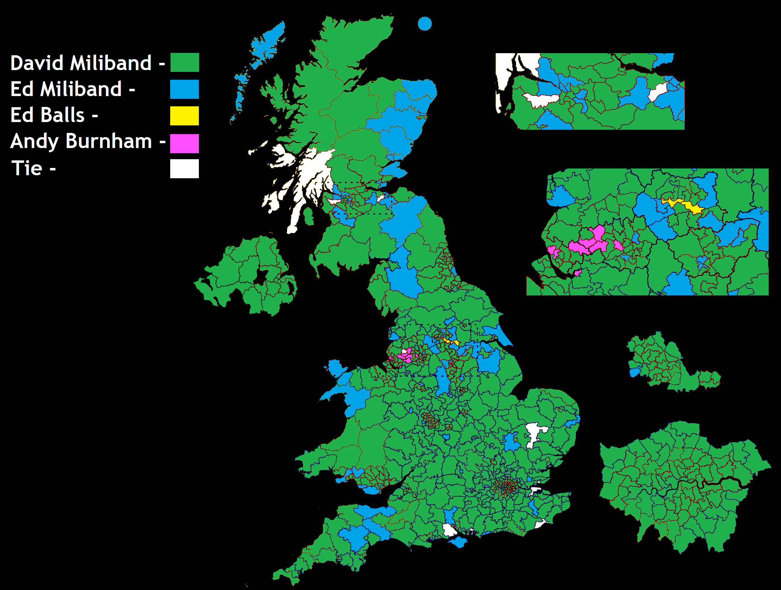 A map of United Kingdom constituencies showing which constituencies were 'won' by the candidates in the 2010 leadership election of the UK Labour Party. Green indicates constituencies won by David Miliband, light blue for Ed Miliband, pink for Andy Burnham, yellow for Ed Balls and white for a tie. All ties with the exception of Wigan were between David and Ed Miliband. Northern Ireland was counted as one constituency.